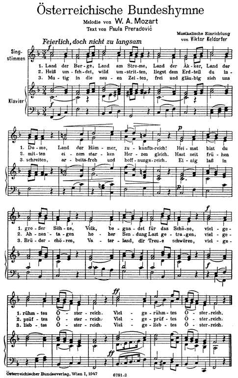 This is a scan of the Austrian national anthem: Title: Österreichische Bundeshymne